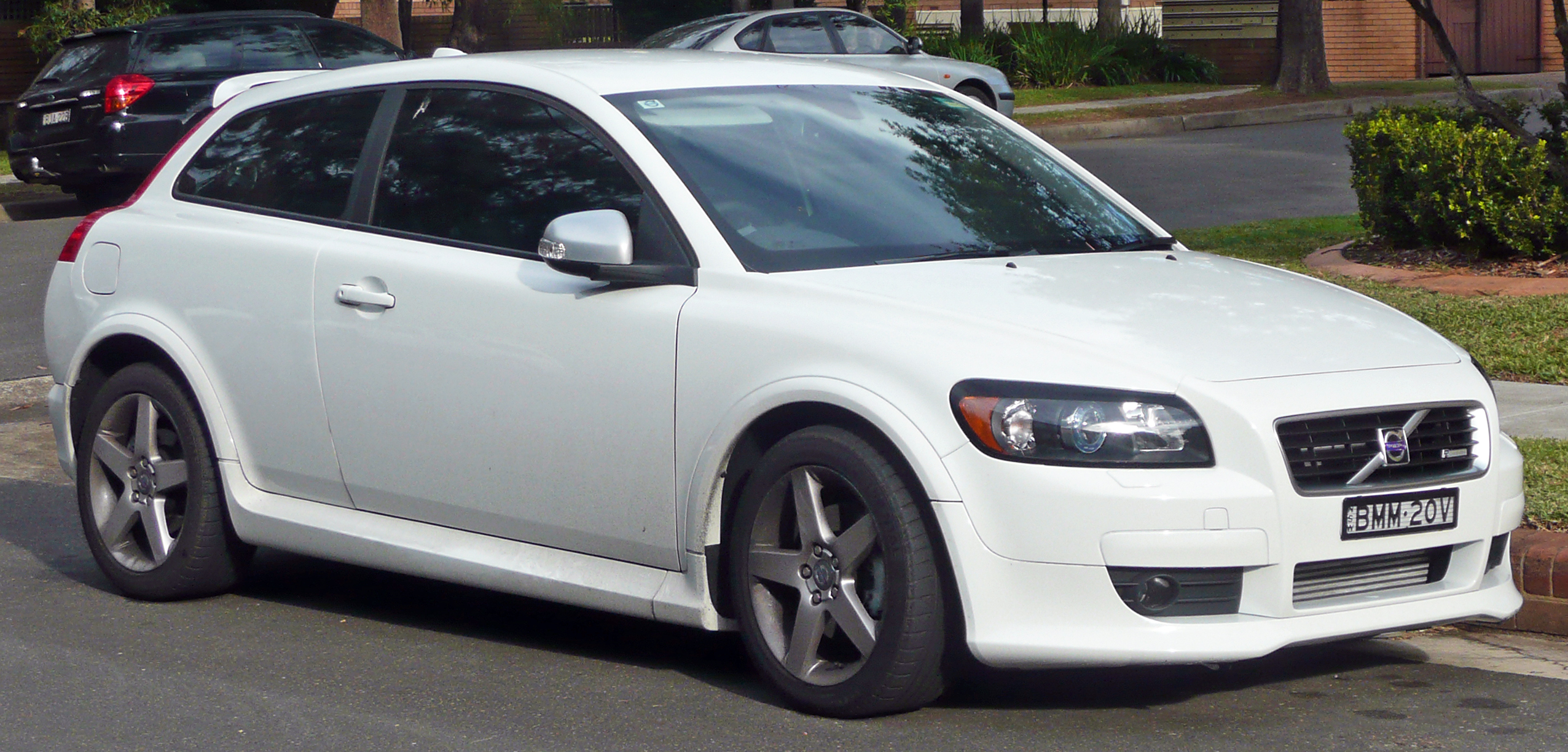 2008–2009 Volvo C30 T5 R-Design hatchback. Photographed in Cronulla, New South Wales, Australia.